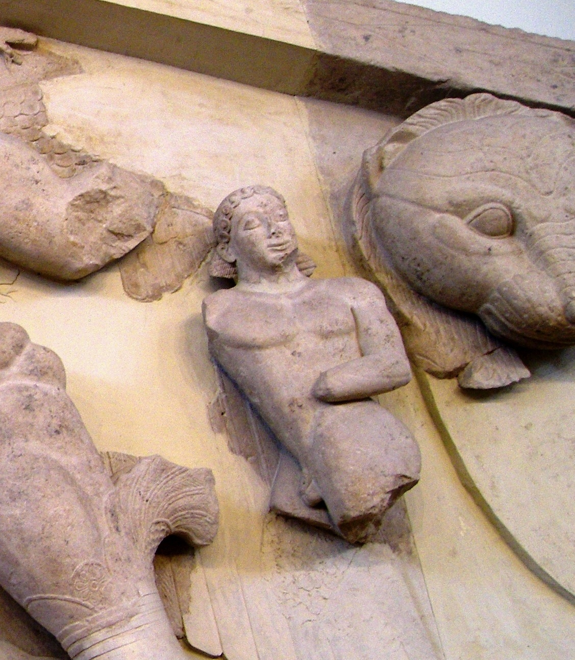 Close up of Khrysaor at the pediment of Artemis temple in Corfu version 2